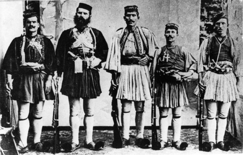 Pavlos Perdikas and other andarts